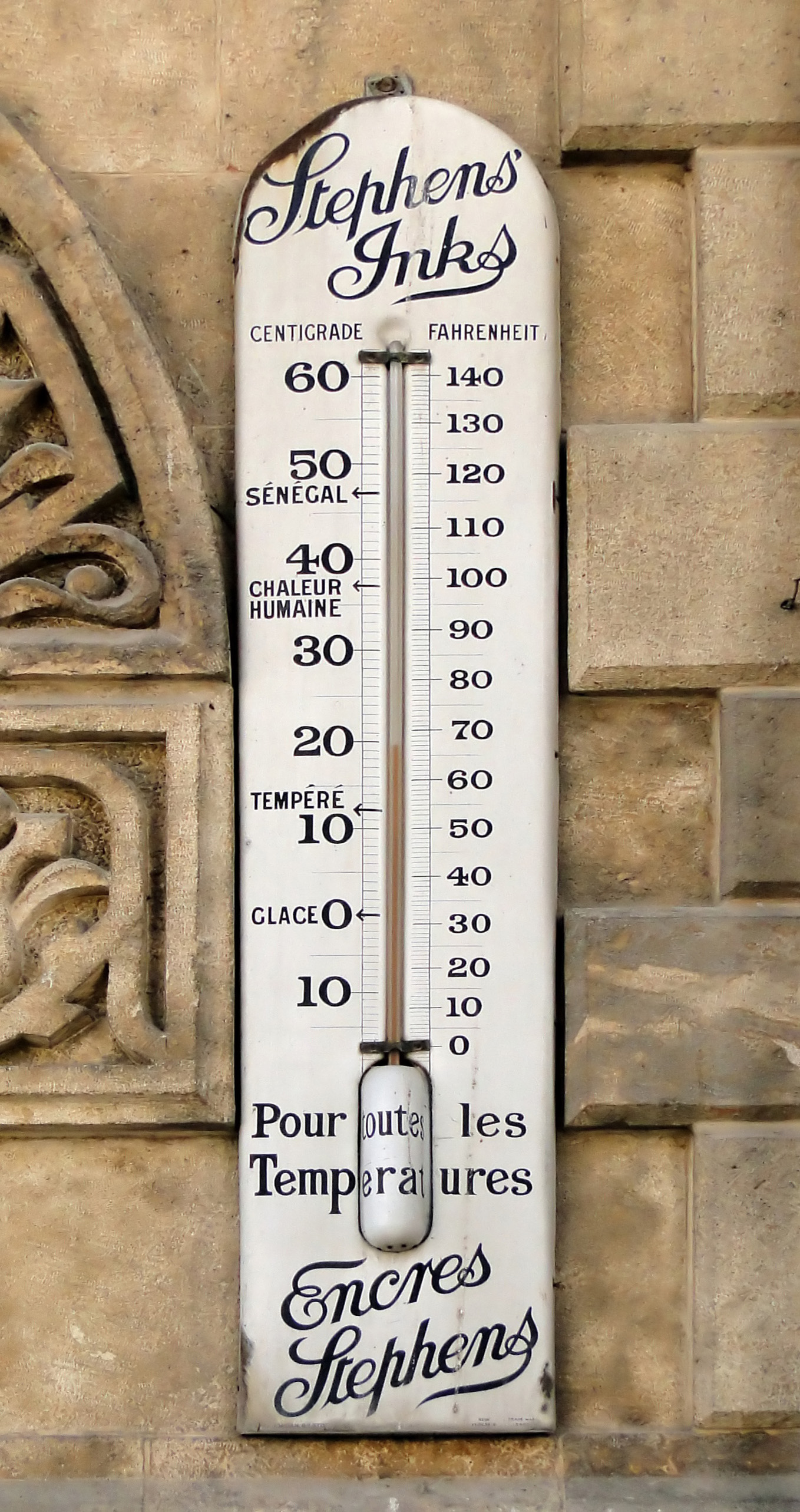 Stephen's Inks exterior thermometer (1920) at Hotel Baron, Aleppo, Syria